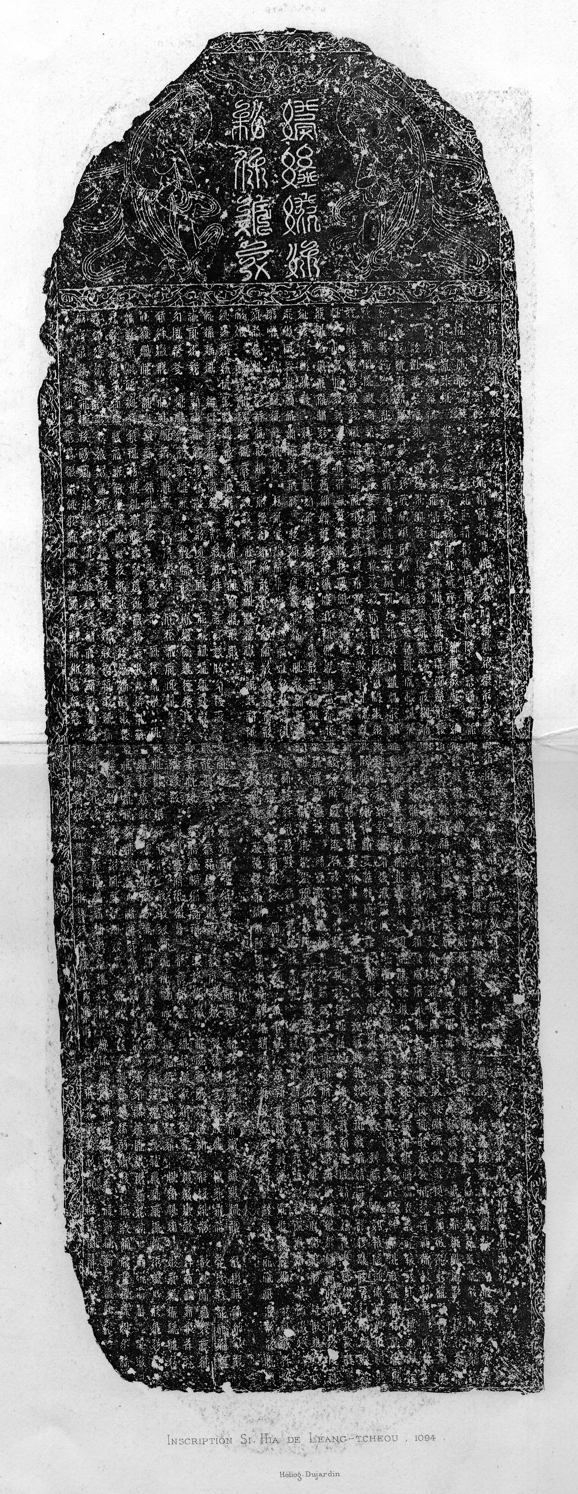 Rubbing of the Tangut text of the 1094 inscription on the Liangzhou Stele at Wuwei in Gansu. From "L'Écriture du Royaume de Si-Hia ou Tangout" (1898) by Gabriel Devéria (1844–1899).